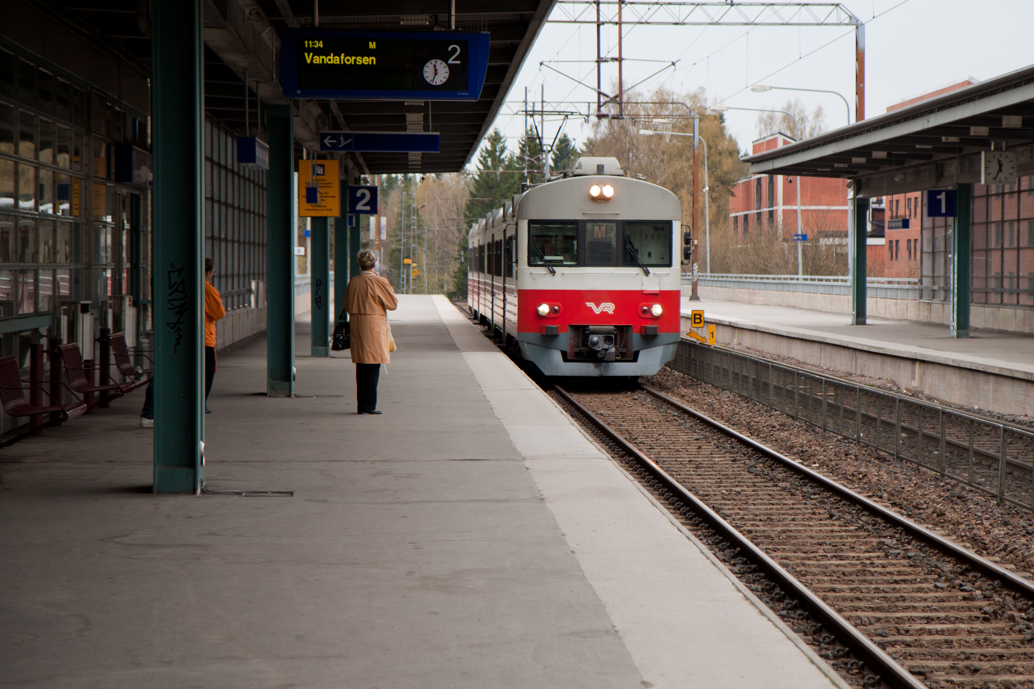 Pohjois-Haaga train station, M-train approaching.